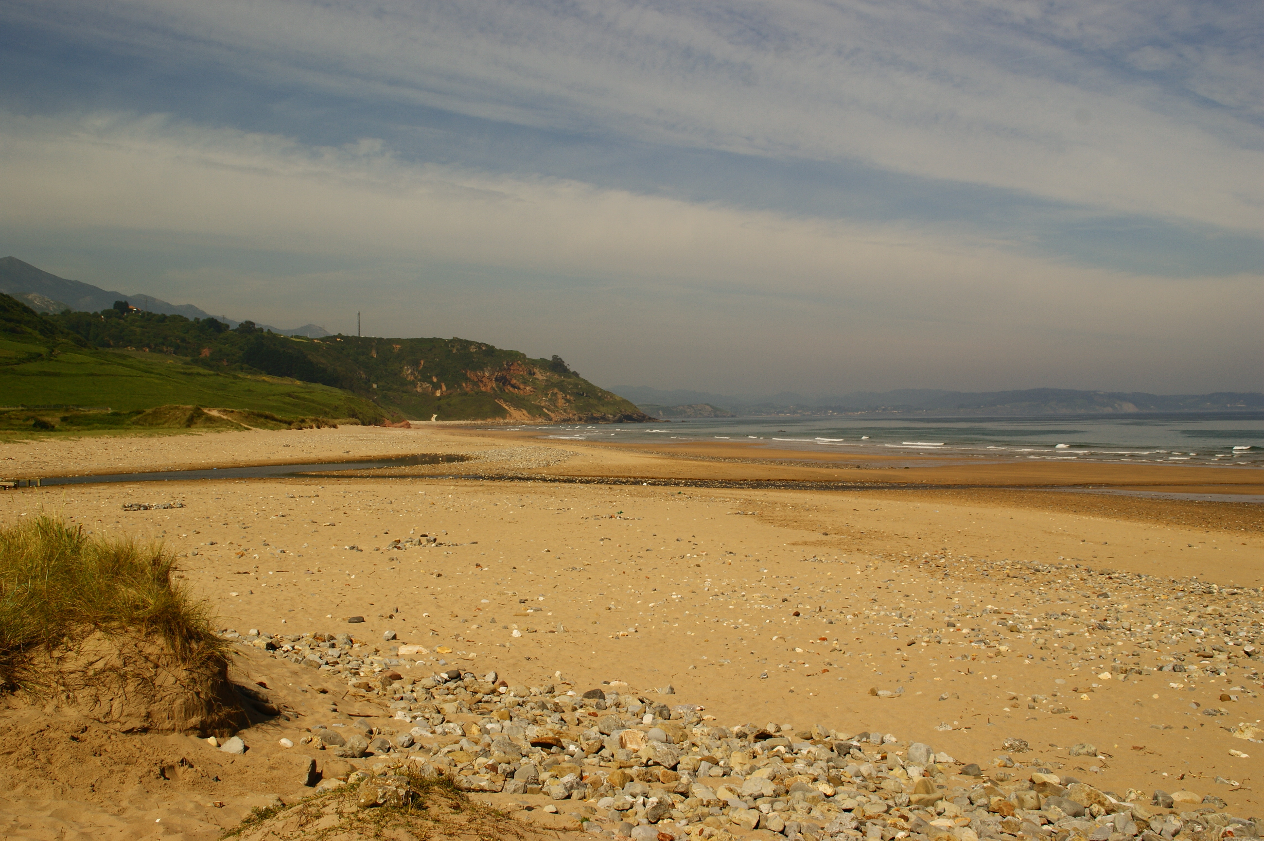 Playa de Vega in Asturias in Nothern Spain.